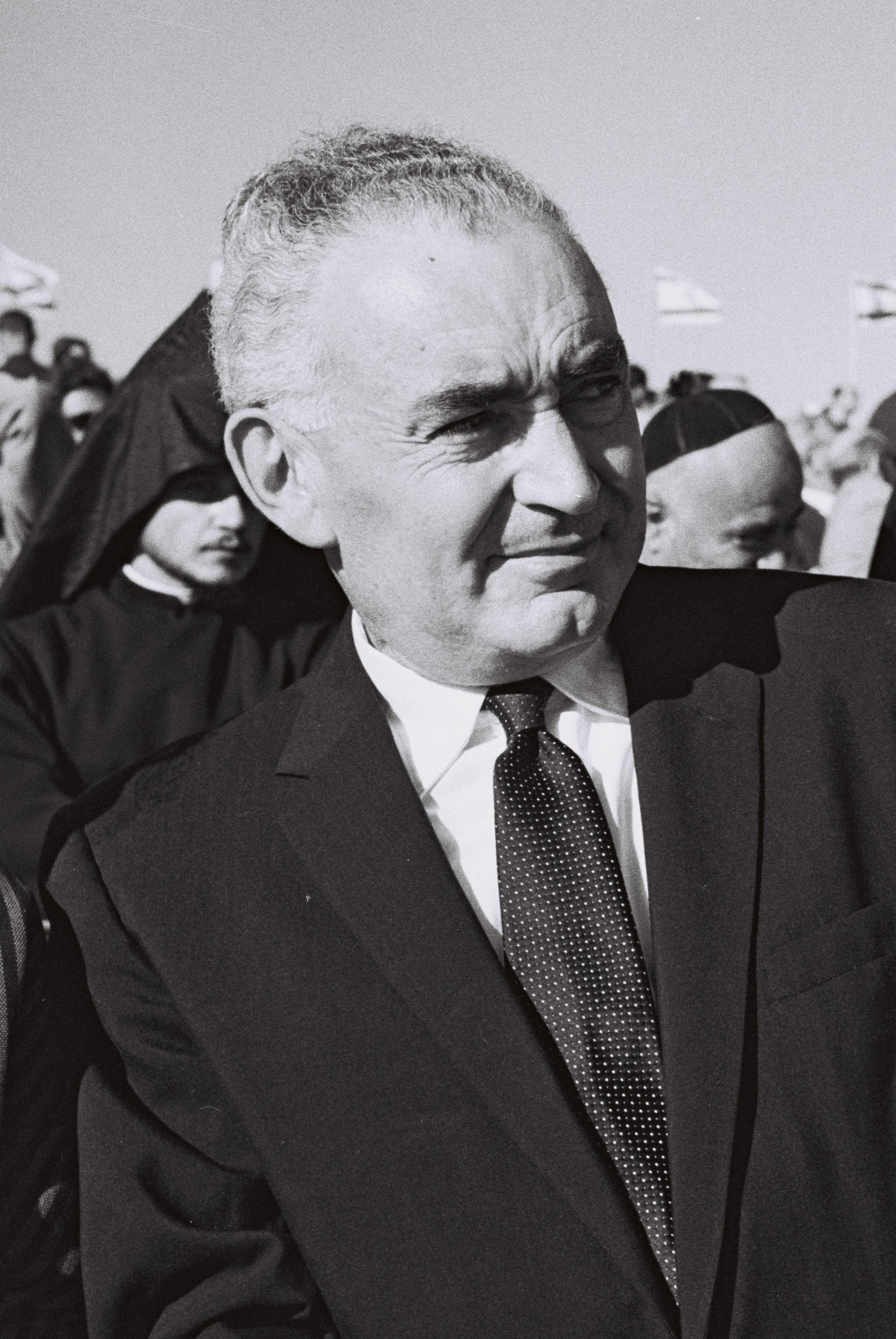 Eliahu Eilat, Israel Ambassador t London in 1958